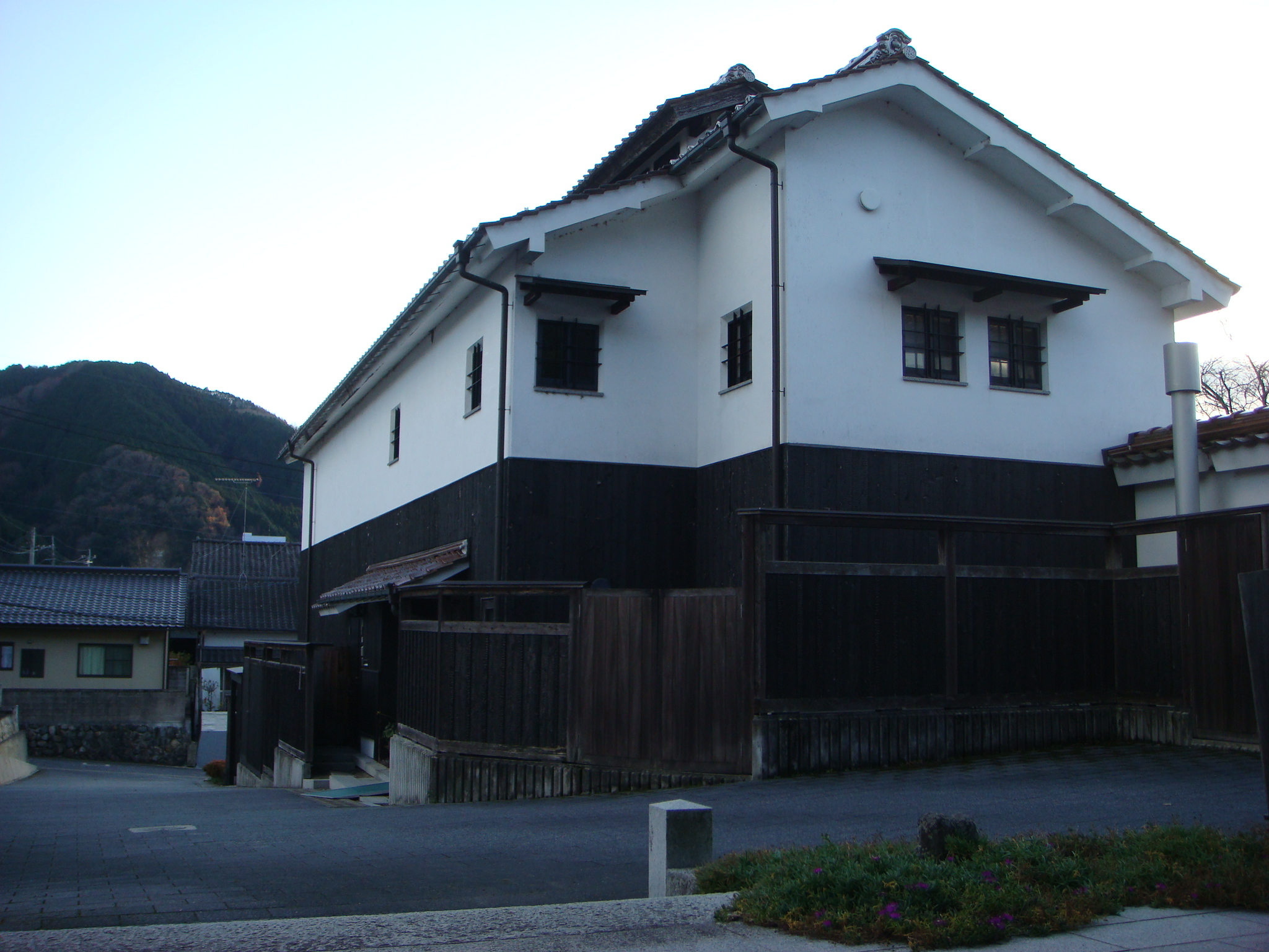 HISHIO – Centre for Cultural Exchange